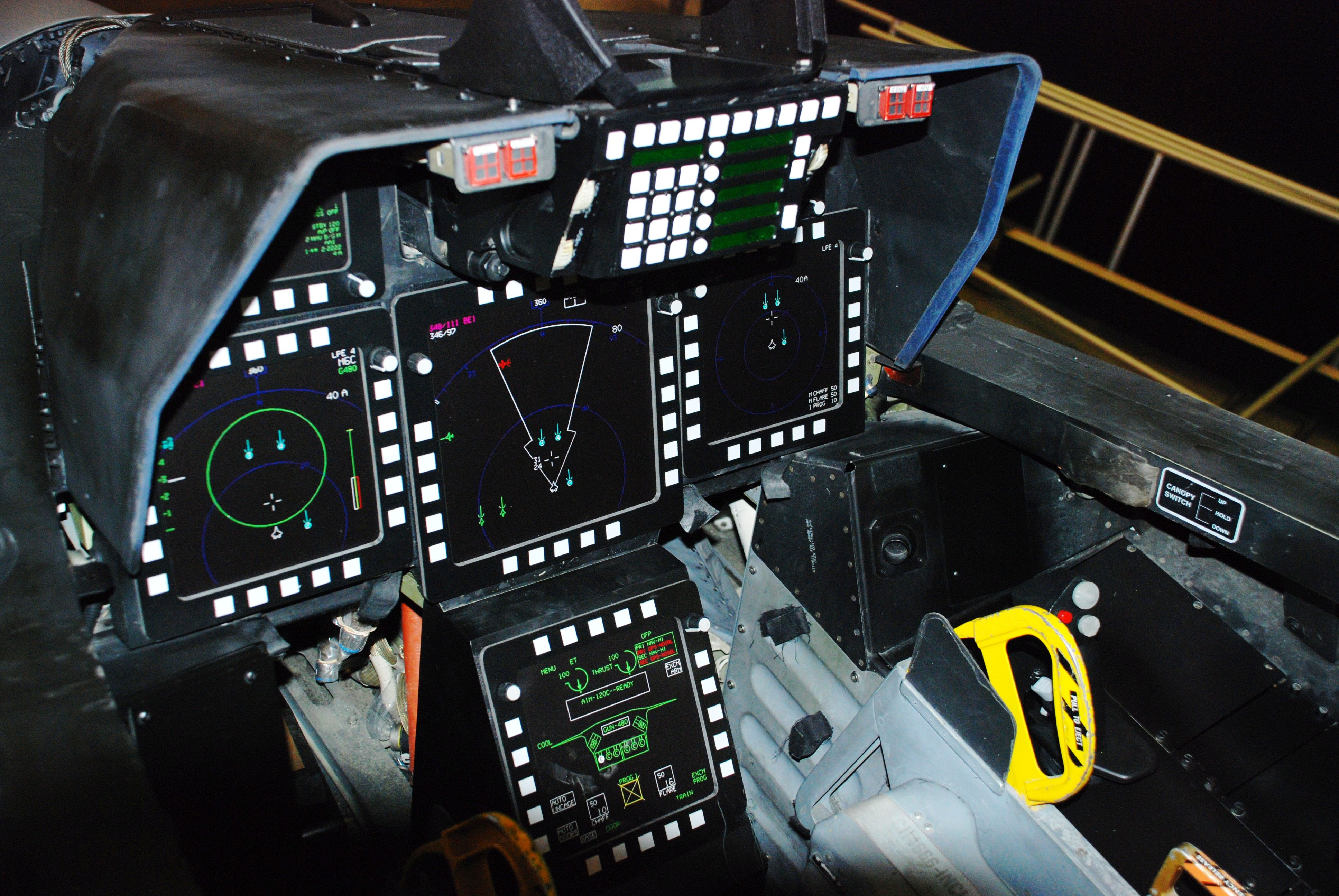 Lockheed Martin F-22A Raptor cockpit at the National Museum of the U.S. Air Force. (U.S. Air Force photo)